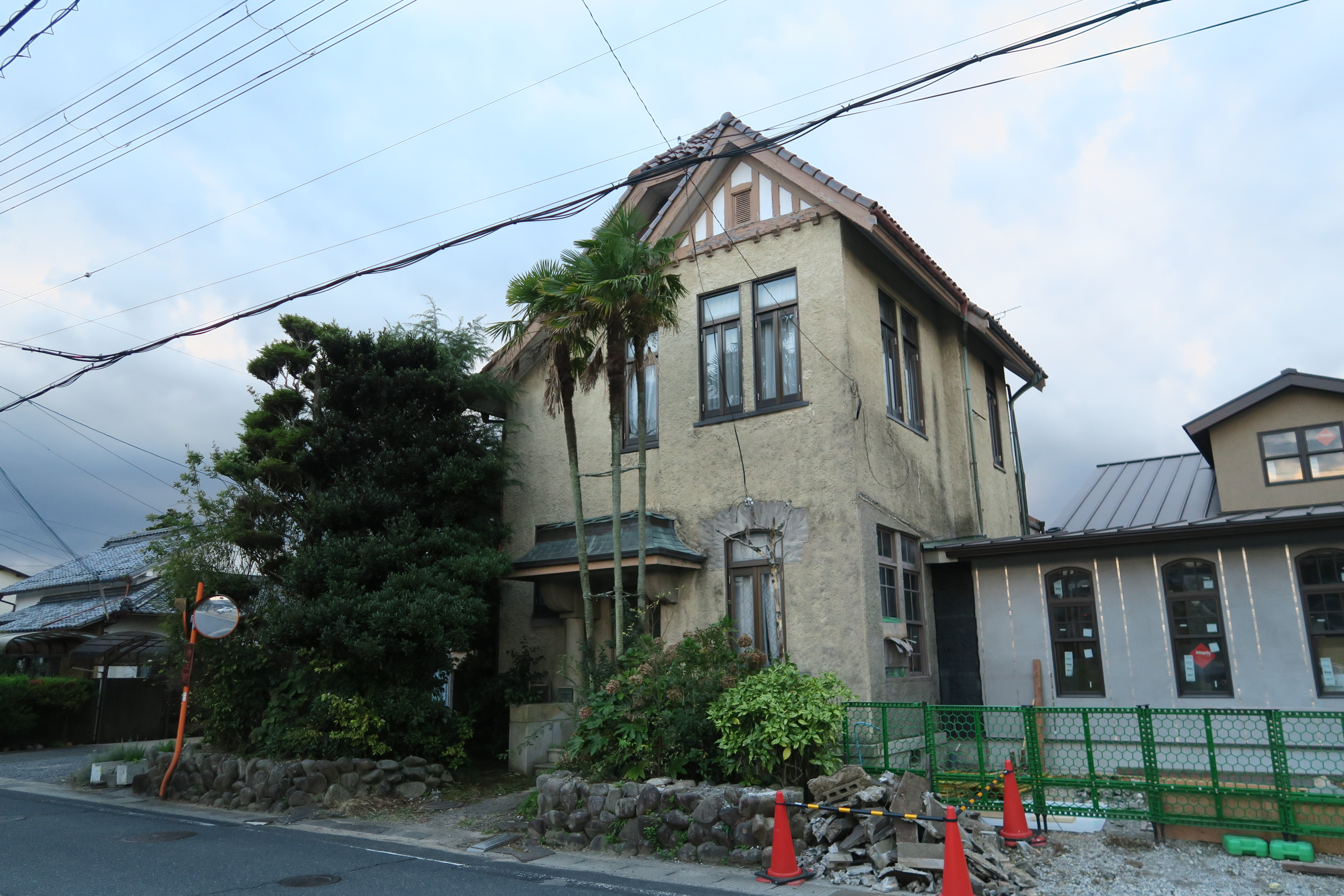 Niki house, Koka, Shiga, Japan